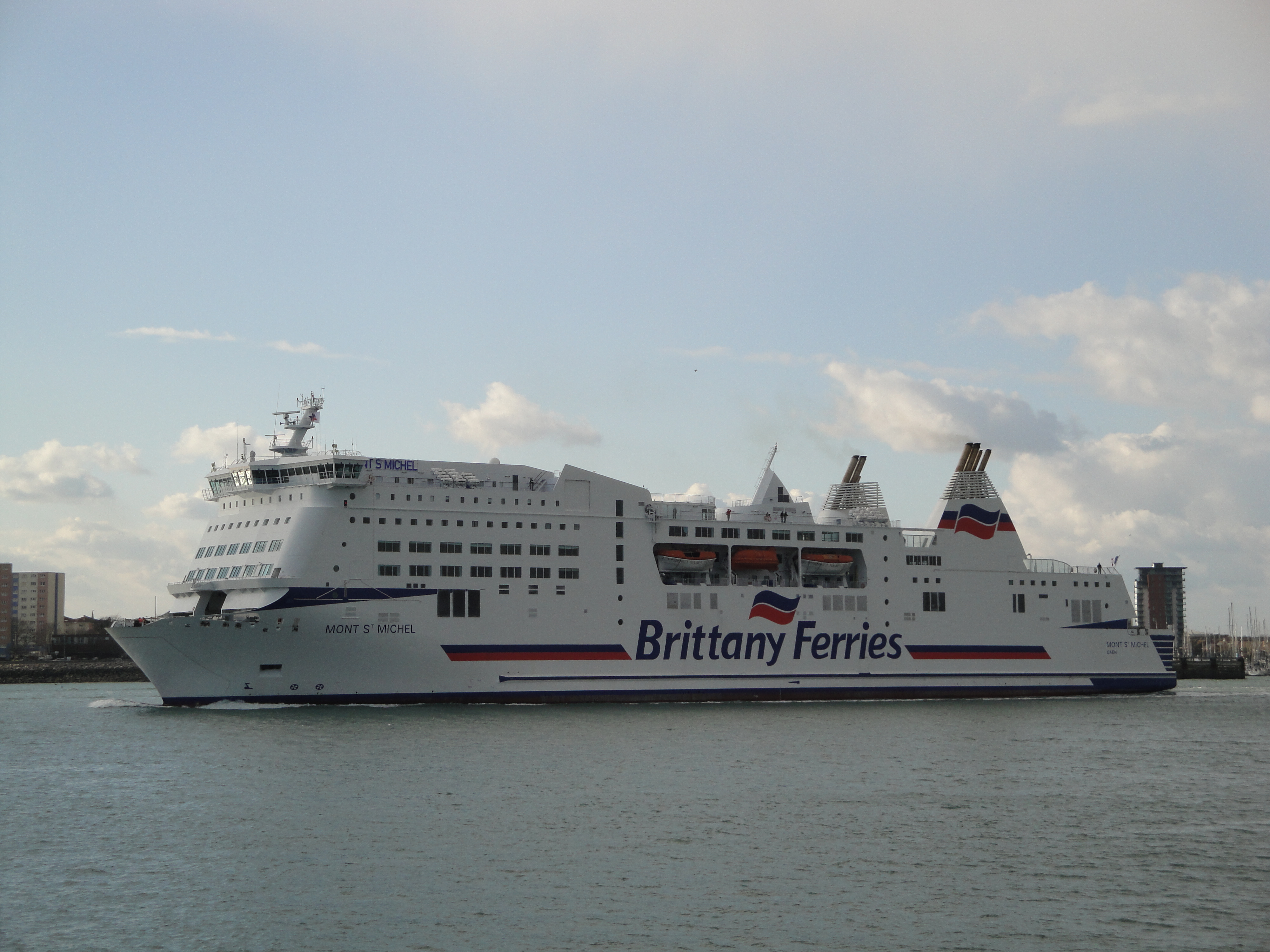 Brittany Ferries Mont St. Michel, a ferry seen in Portsmouth Harbour, Hampshire. It runs on the Portsmouth to Caen service.